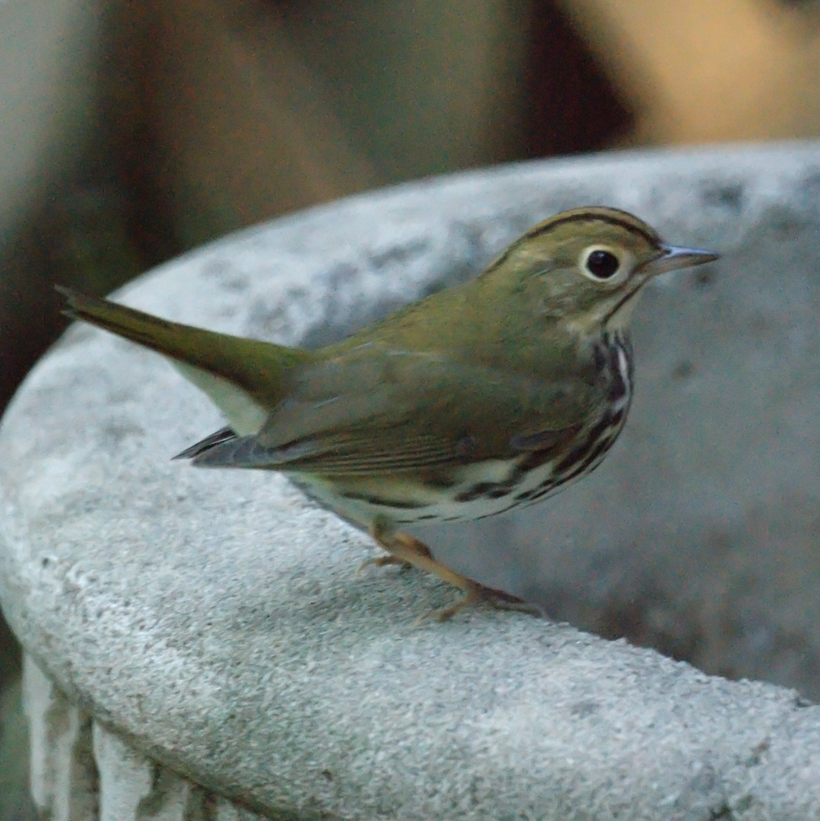 Ovenbird in the garden